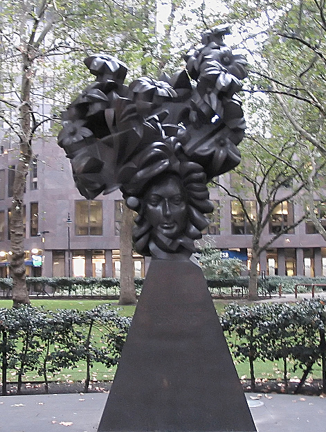 This sculpture, located in a small park at the corner of Victoria St. and Broadway in Westminster, London, is called "The Flowering of the English Baroque" by Glynn Williams, and was erected in 1994. It's a memorial to Henry Purcell commissioned by the Westminster City Council. The engraving (illegible in this photo) reads "HENRY PURCELL 1659 - 1695". Various modifications to try to deal with low quality of original photo (downscaling, sharpening, reduced saturation), but we really need a better photo of this sculpture.